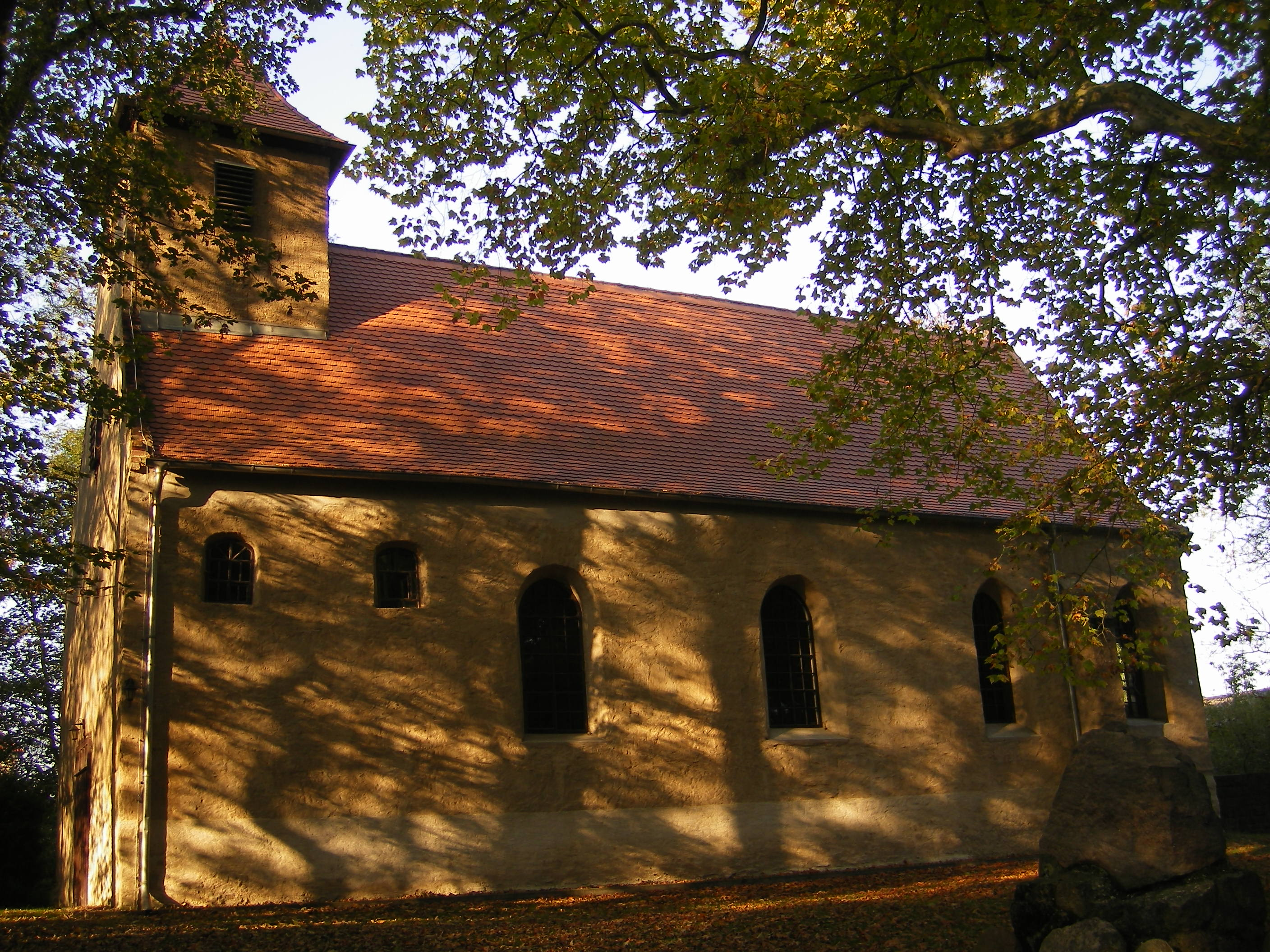 Church in Meuselwitz-Falkenhain near Altenburg/Thuringia